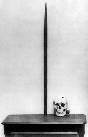 Phineas Gage's tamping iron and skull on display.